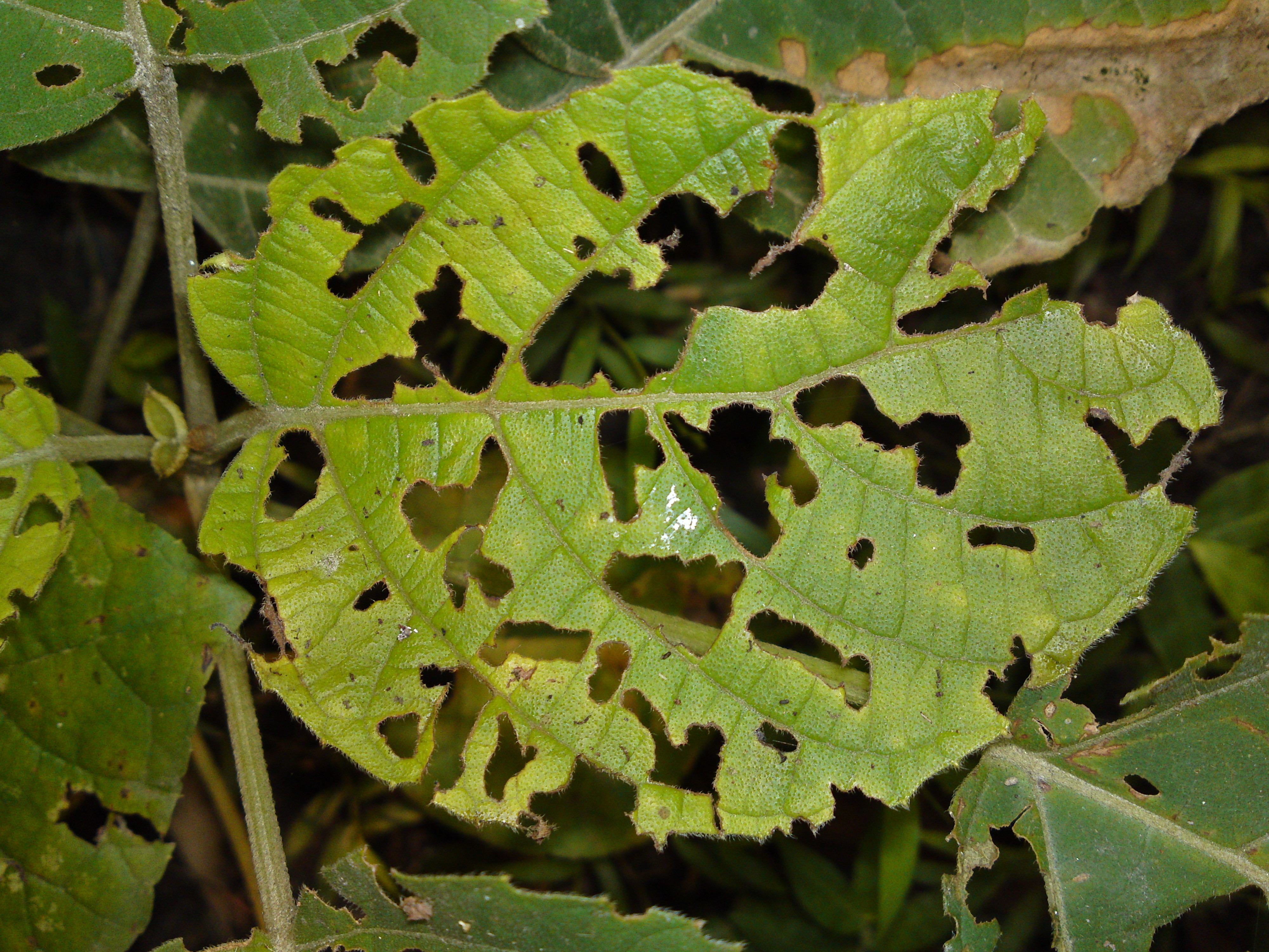 Mottled leaf possibly due to caterpillar infestation